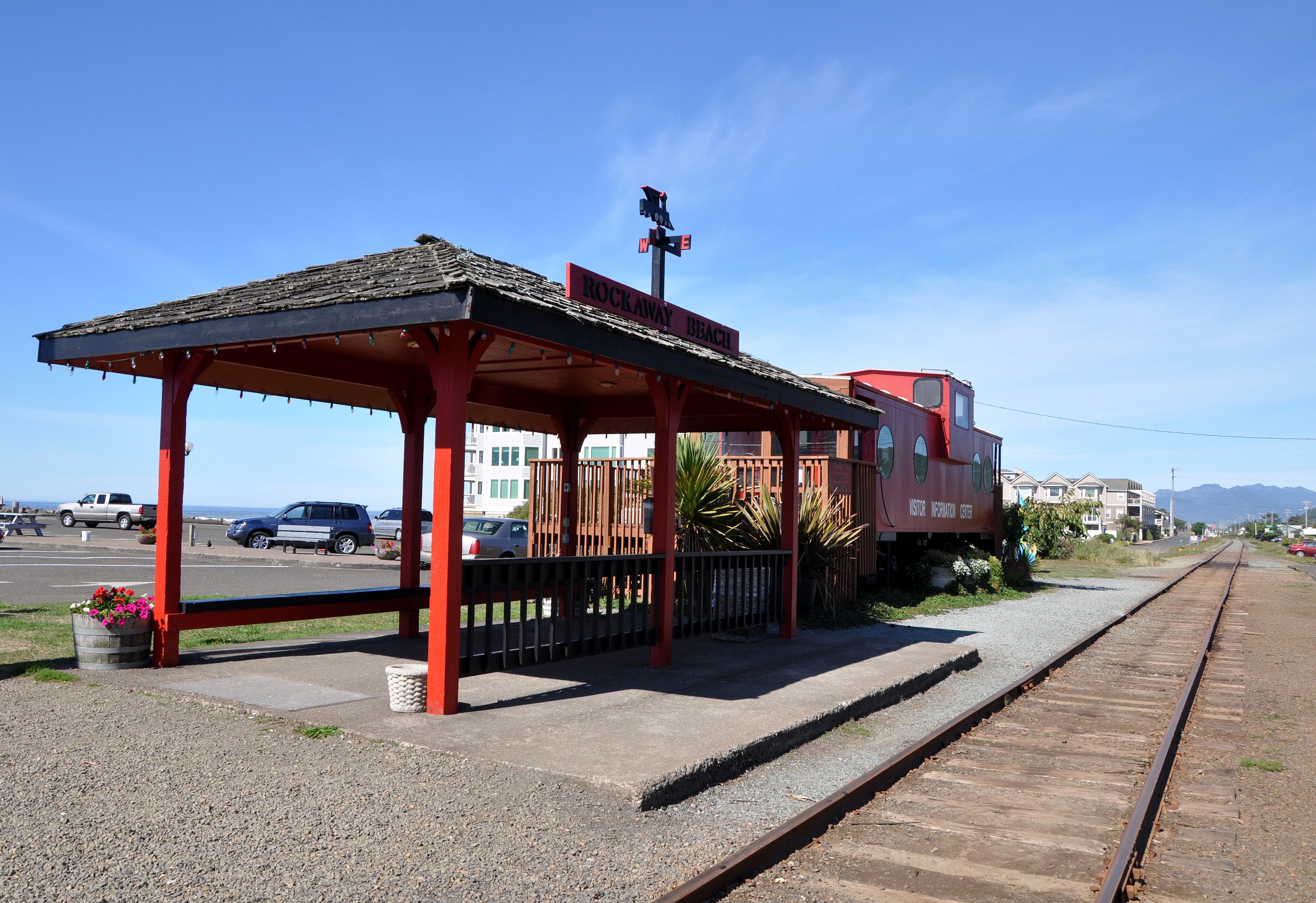 Visitor information center at Rockaway Beach, Oregon, in the United States. The building, a railroad caboose, is just off U.S. Highway 101 in the middle of town.